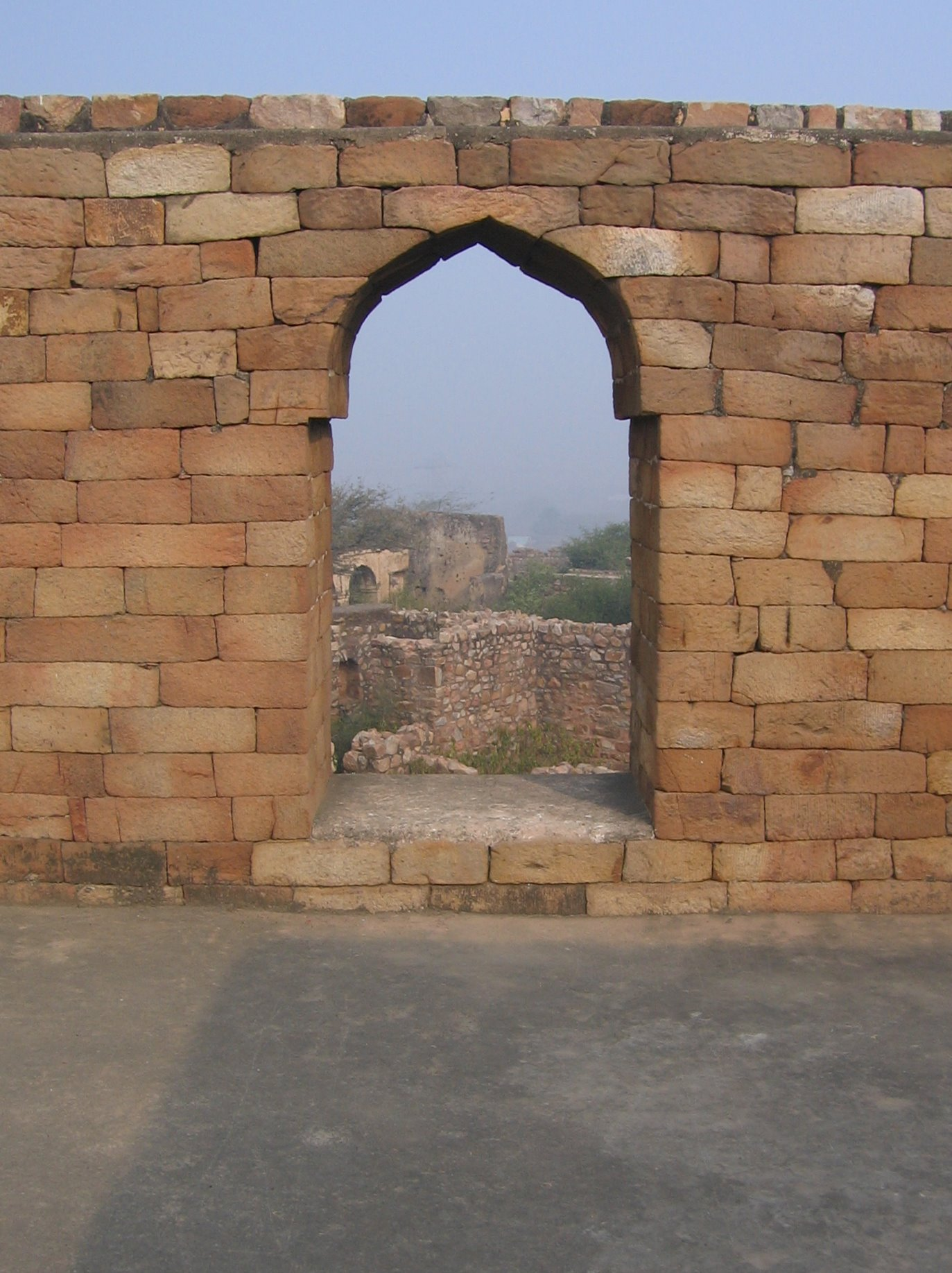 A corbelled arch at the tomb of Nasir ud din Mahmud, commonly known as the tomb of Sultan Ghari. The building was constructed in 1231 AD, before the true arch was introduced to India.